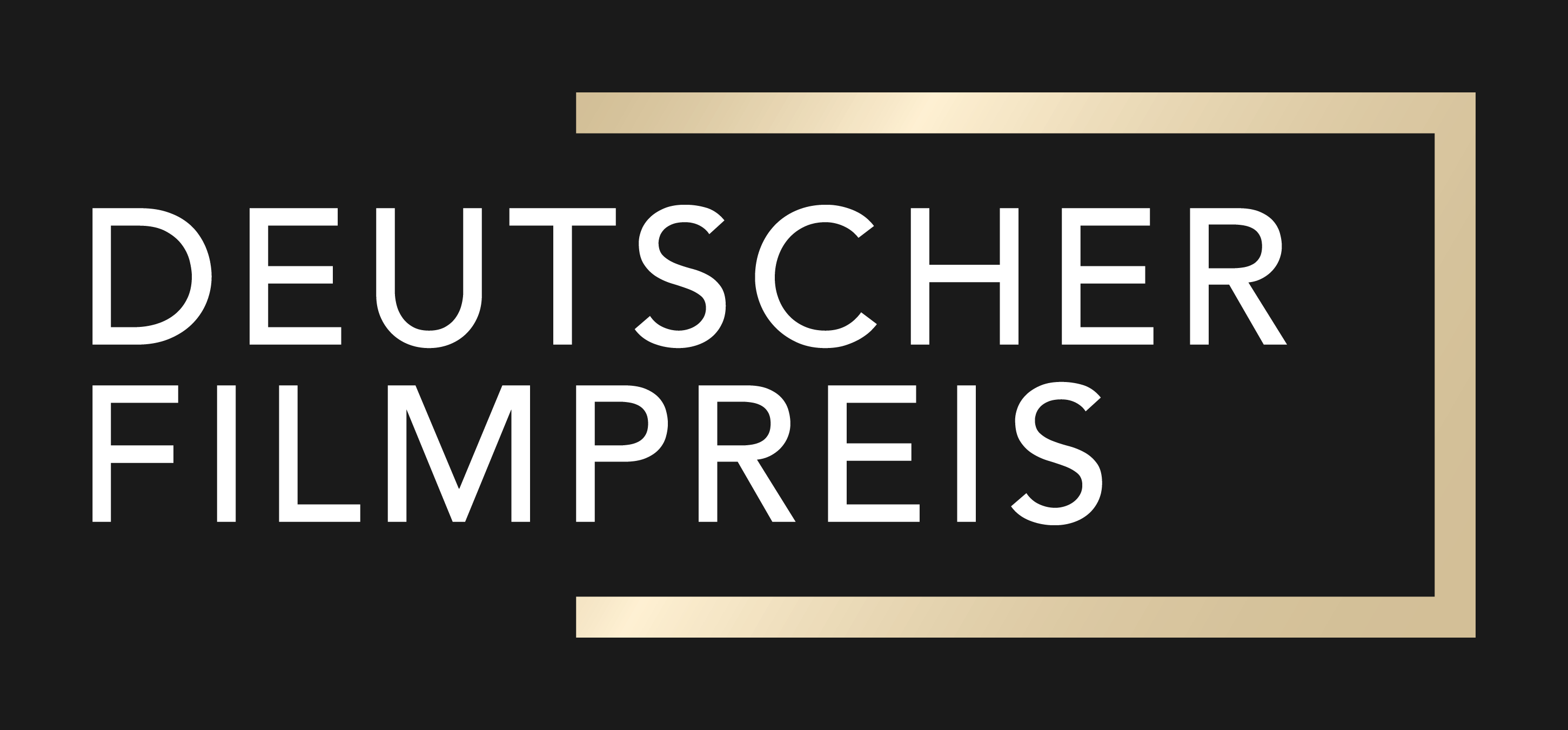 Logo of the Deutscher Filmpreis since 2019